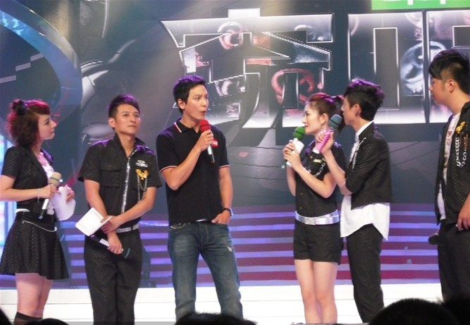 Happy Camp is a Chinese variety show produced by Hunan Broadcasting System. The series debuted in 1997, and has remained in production since then due to its popularity. The show was hosted by the Happy Family: He Jiong, Li Weijia, Xie Na, and Wu Xin.中文（中国大陆）: 2009年7月，何炅、李维嘉、谢娜、吴昕主持的《快乐大本营》，嘉宾是吴彦祖。